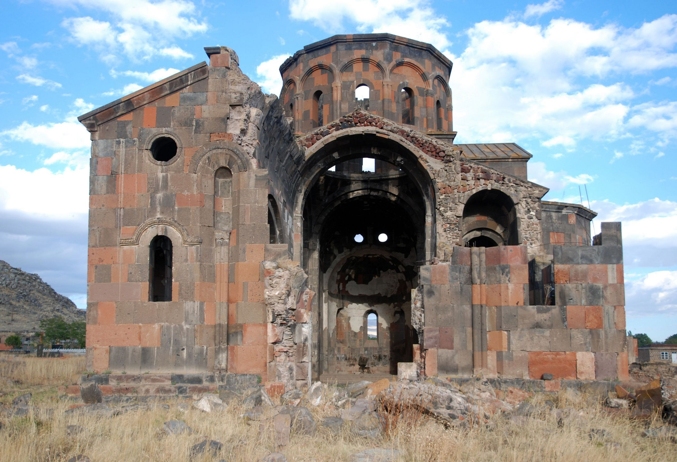 Talin, cathedral west